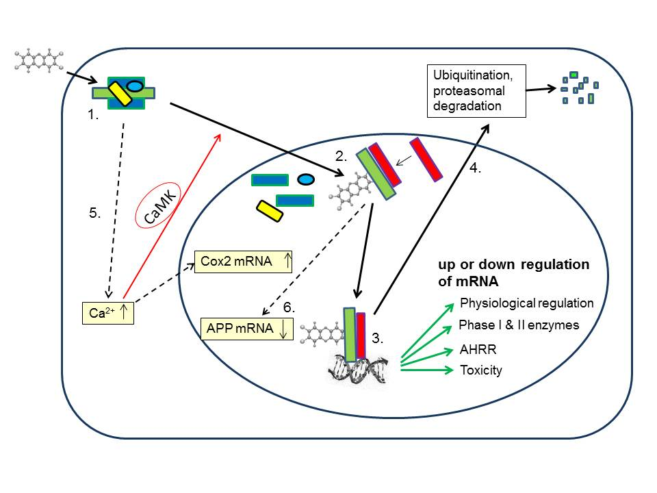 A schematic diagram of some AHR (aryl hydrocarbon receptor, dioxin receptor) signaling pathways in the cell (simplified and modified from Lindén et al., Front Neuroendocrinol. 2010;31:452 )